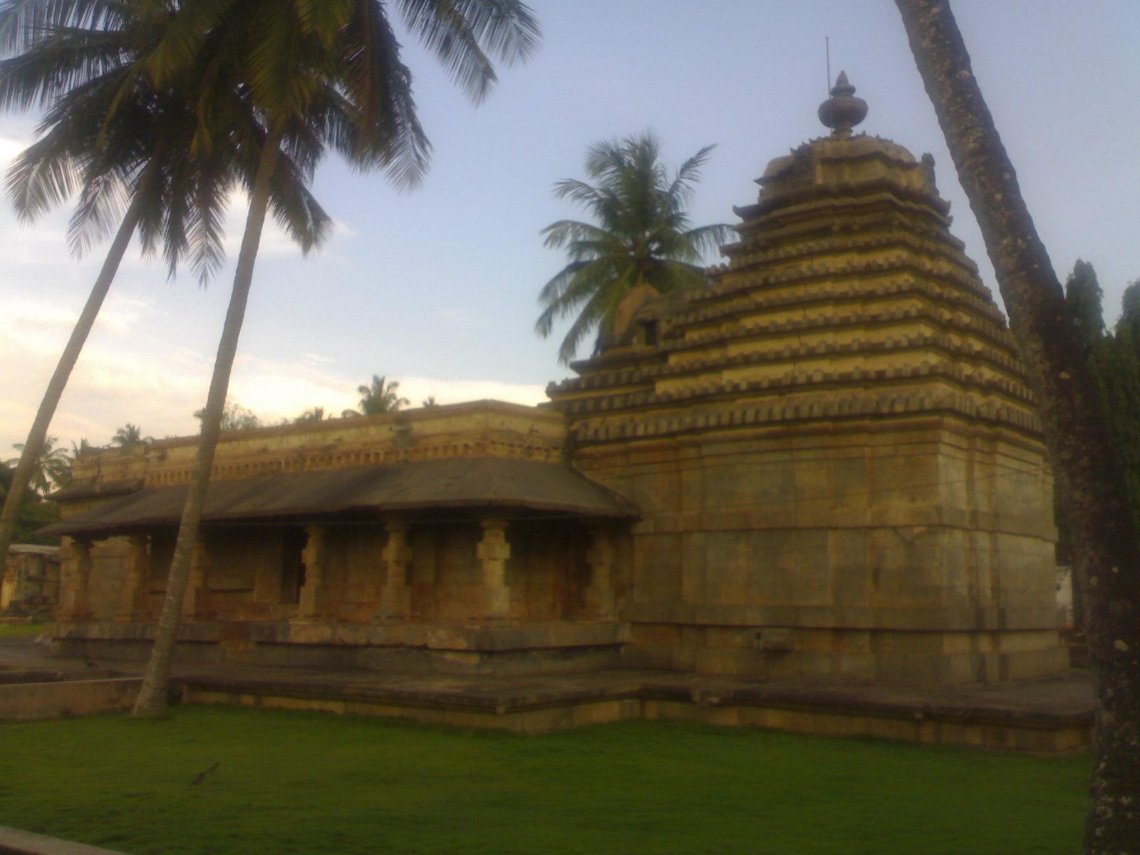 Halasi